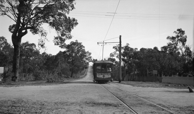 Fremantle Municipal Tramways tram on High Street, bound for Carrington Street, golf course on left.